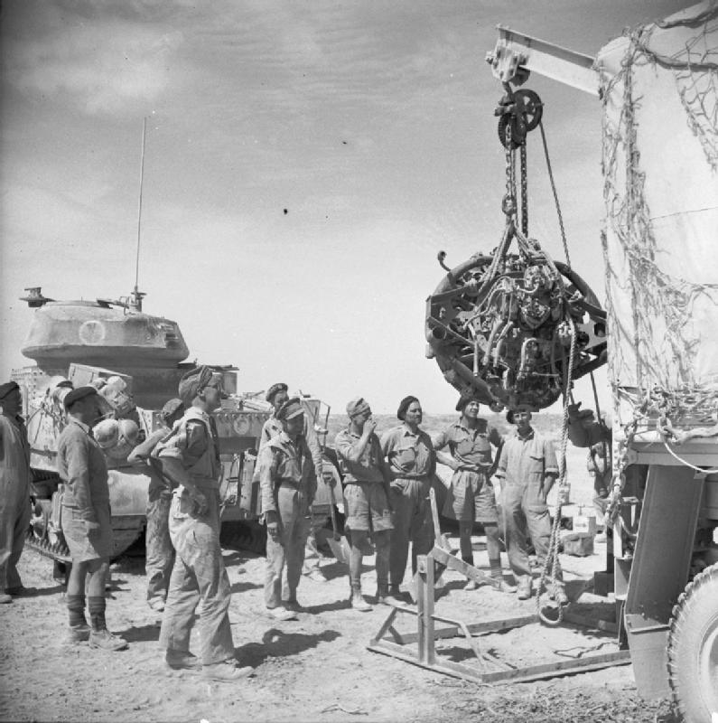 The British Army in North Africa 1942 The engine of a Grant tank is removed for overhaul by the mechanics of a light recovery section of the Royal Army Ordnance Corps, 10 June 1942.